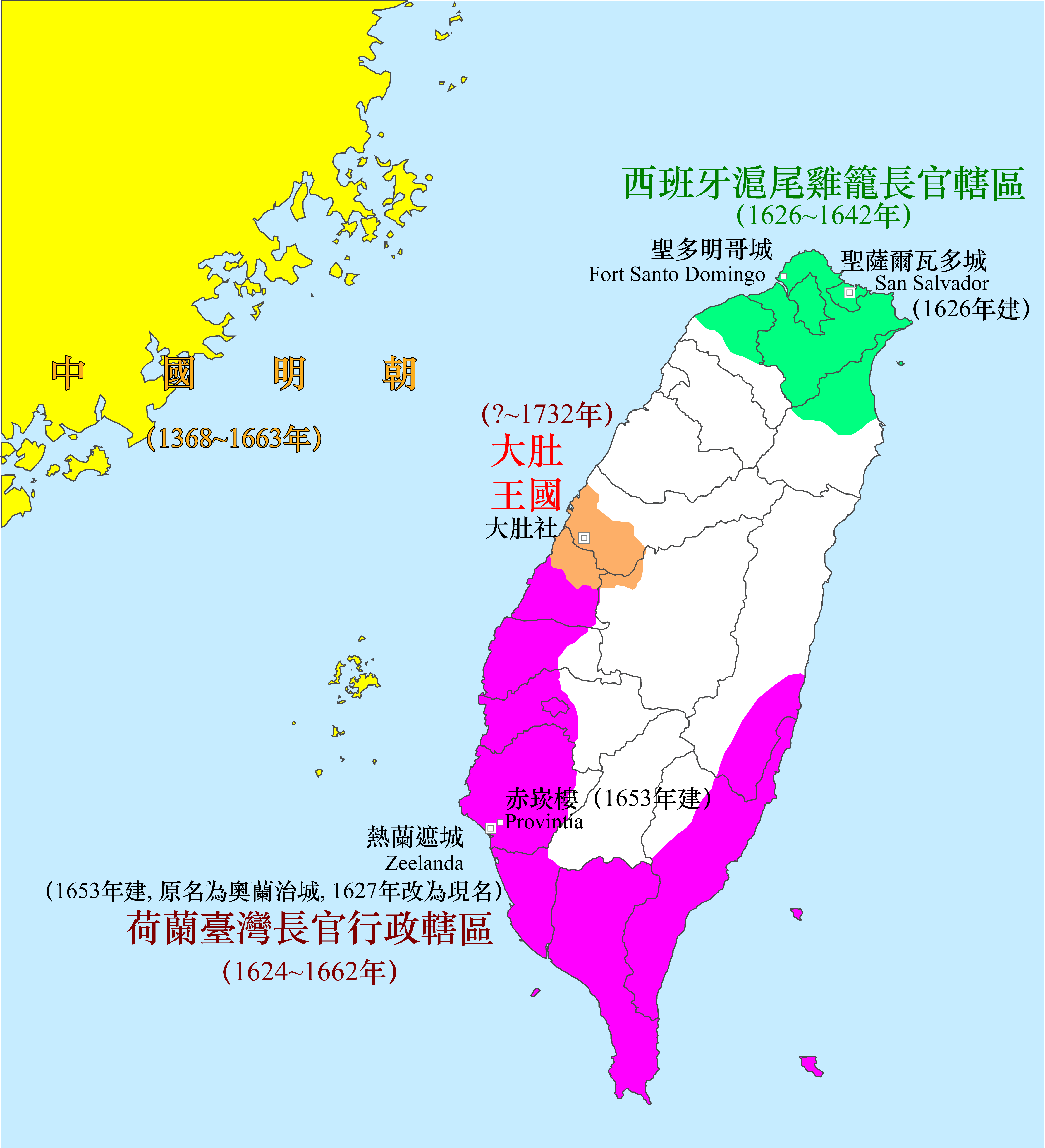 Dutch Formosa and Spanish Formosa - colonial era Taiwan 1624-1662. Dutch Territory Spanish Territory Kingdom of Middag China (Ming)